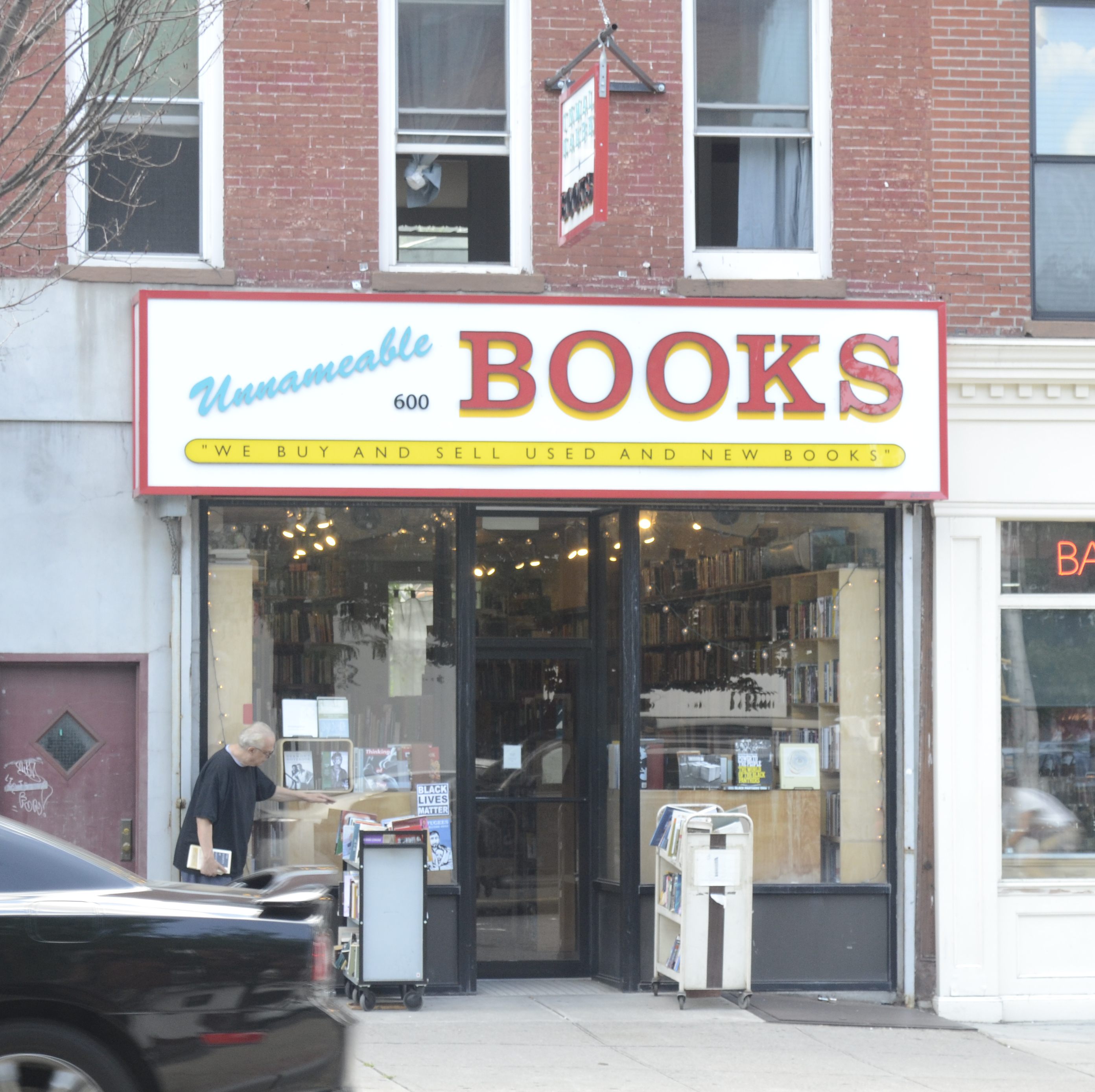 Unnameable Books in Brooklyn, New York City, photographed from across the street on Vanderbilt Avenue. There is a hanging sign that can be seen when walking parallel to the shop. Outside the shop are two book carts containing bargain books.